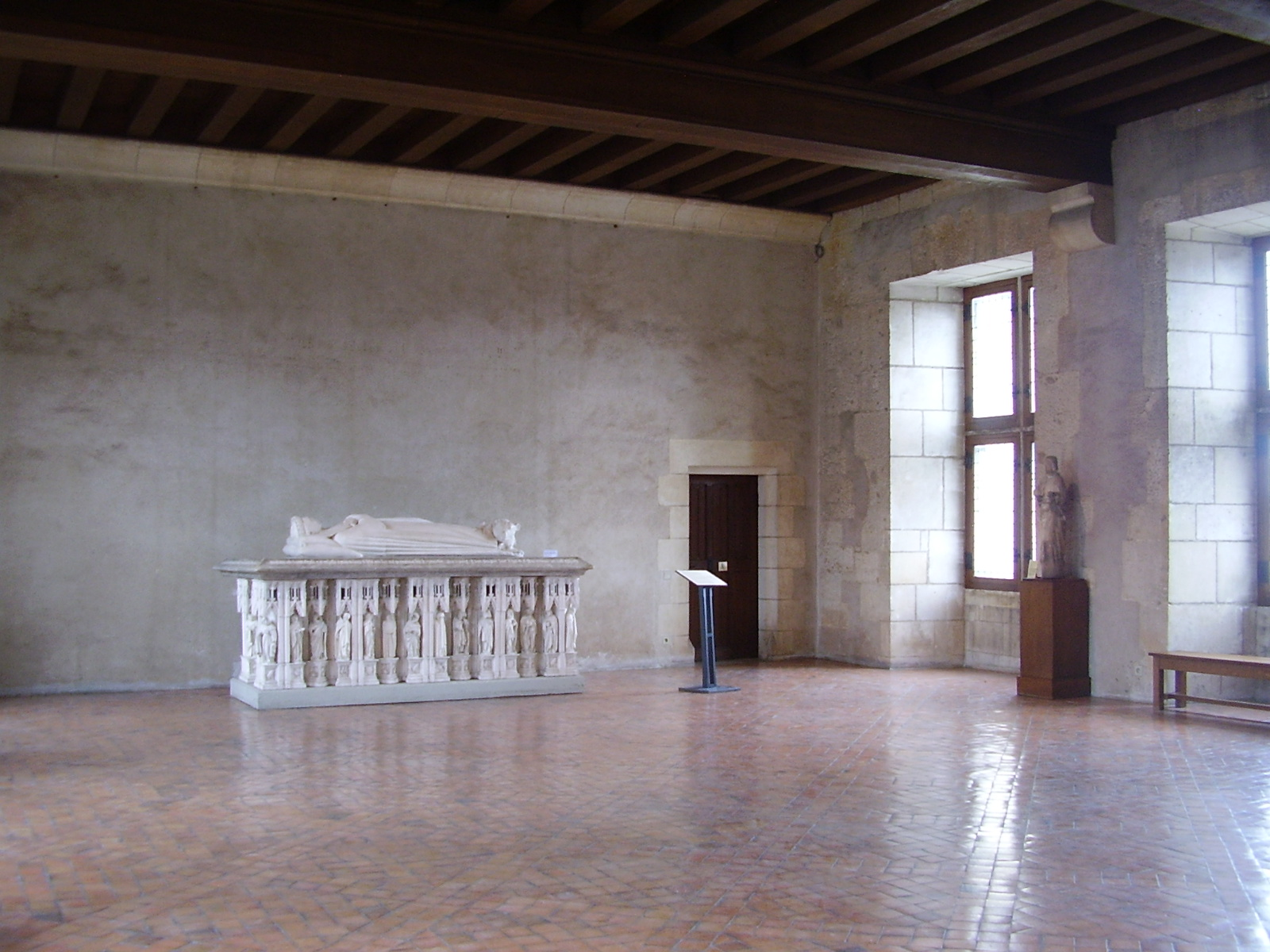 Room in Jacques Coeur Palace (Bourges, France). With a copy of the recumbent statue of the Duke of Berry's grave